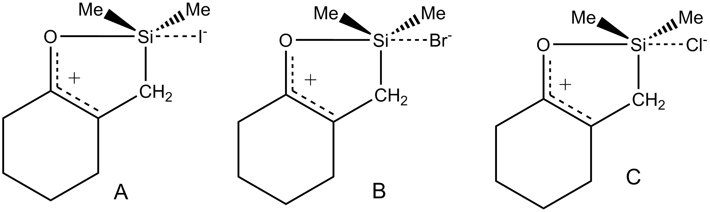 pentacoordinated silicon compounds with oxygen donors, adapted from Holmes Chem Rev 1996 Vol 96 No 3 p933.